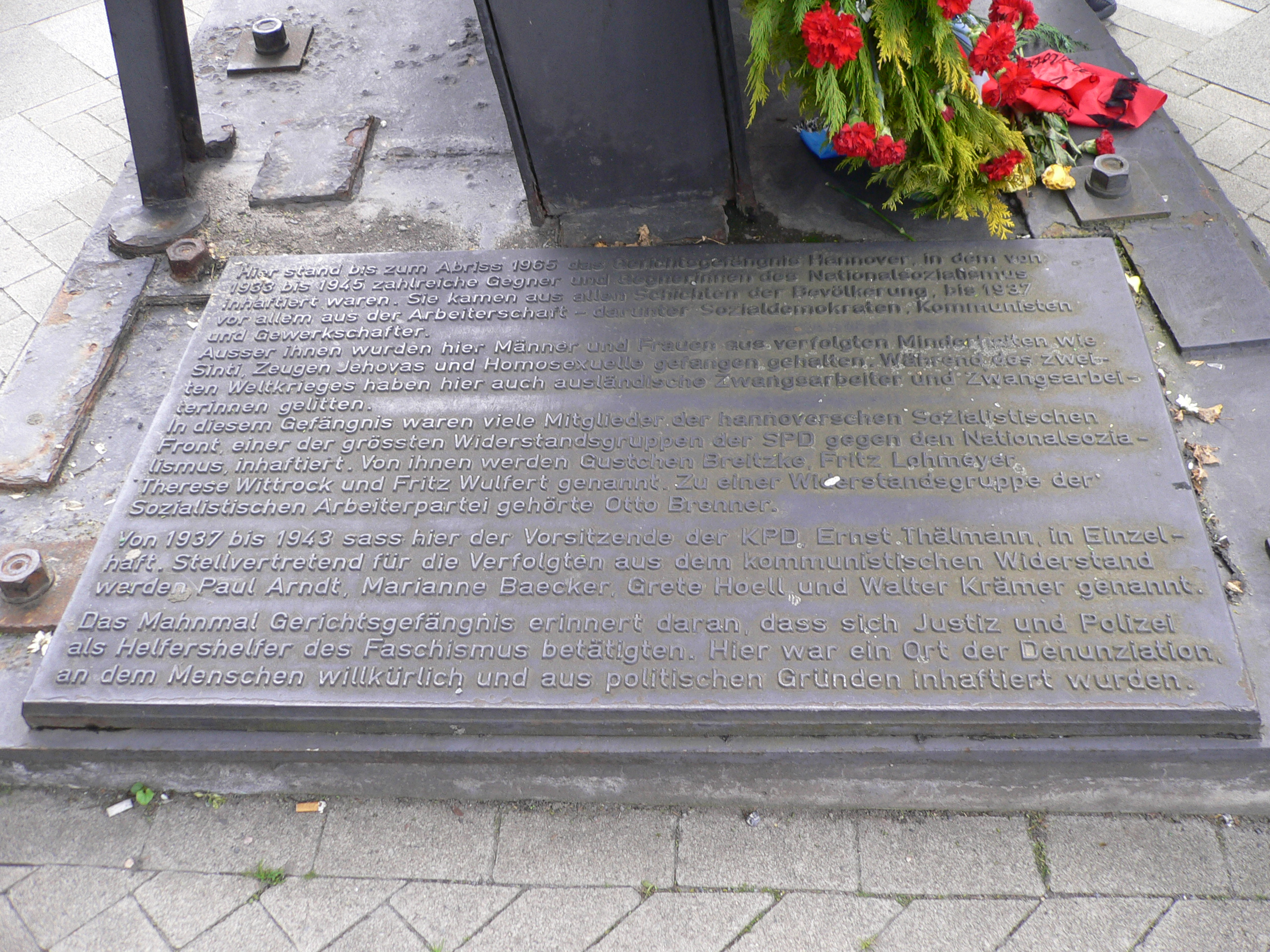 Memorial to all the groups of victims of the Nazism in Hanover between culture center Pavillon, Raschplatz place and the Hannover Central Station "Hannover Hauptbahnhof" (Hannover Hbf)